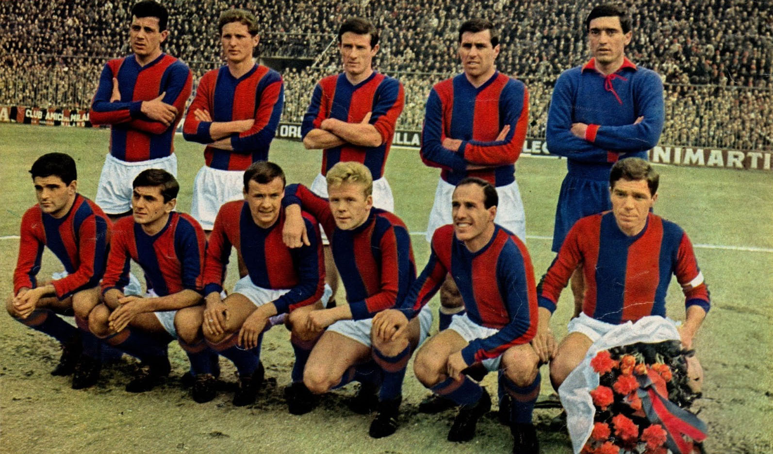 Milan (Italy), San Siro, March 1, 1964. The line-up of Bologna F.C. took to the pitch prior the away victory versus Milan A.C. (1-2), Matchday 23 of the Italian League 1963–64 Serie A. From left to right, standing: F. Janich, C. Furlanis, R. Fogli, P. Tumburus, W. Negri; crouched: M. Perani, G. Bulgarelli, H. Nielsen, H. Haller, E. Pascutti, M. Pavinato (captain).